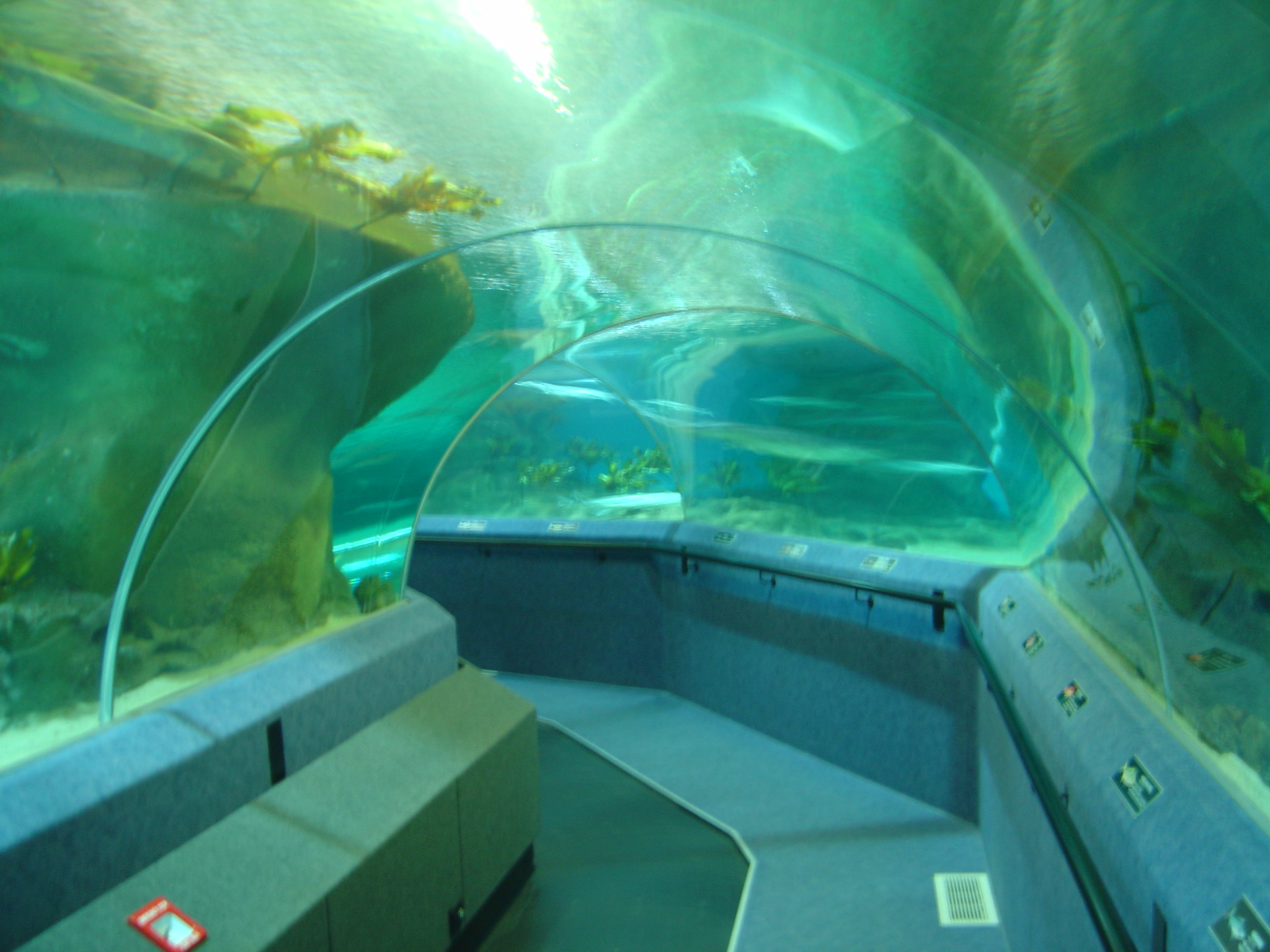 Shot from inside the tunnel of the Oceanarium at the aquarium